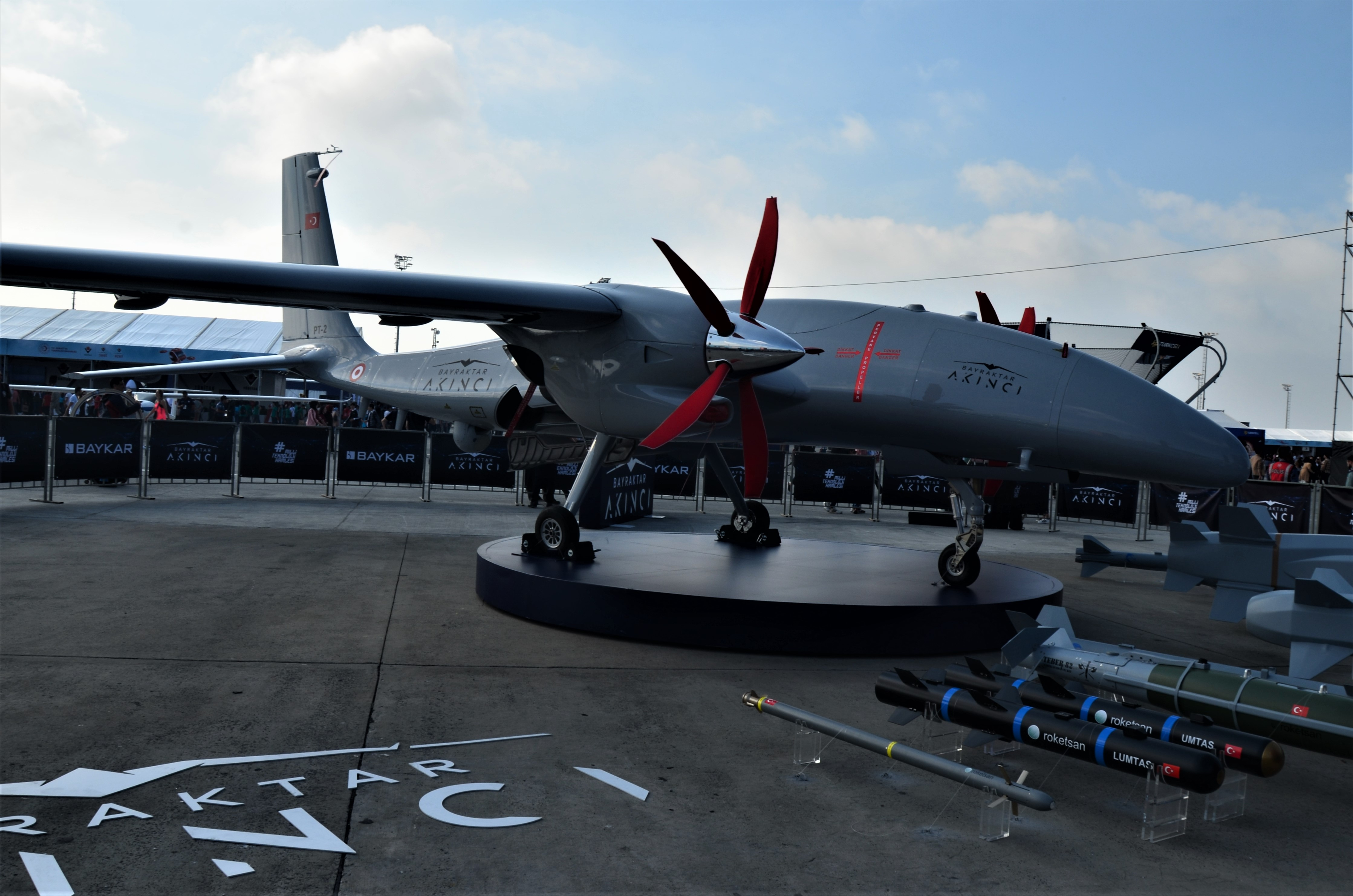 Unmanned combat aerial vehicle Akıncı of Bayraktar at Teknofest 2019